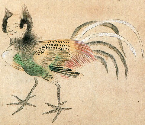 "Fuhsi" (鳧徯, a legendary bird in China) from the Kaiki-chōjū-zukan (怪奇鳥獣図巻, Japanese picture)